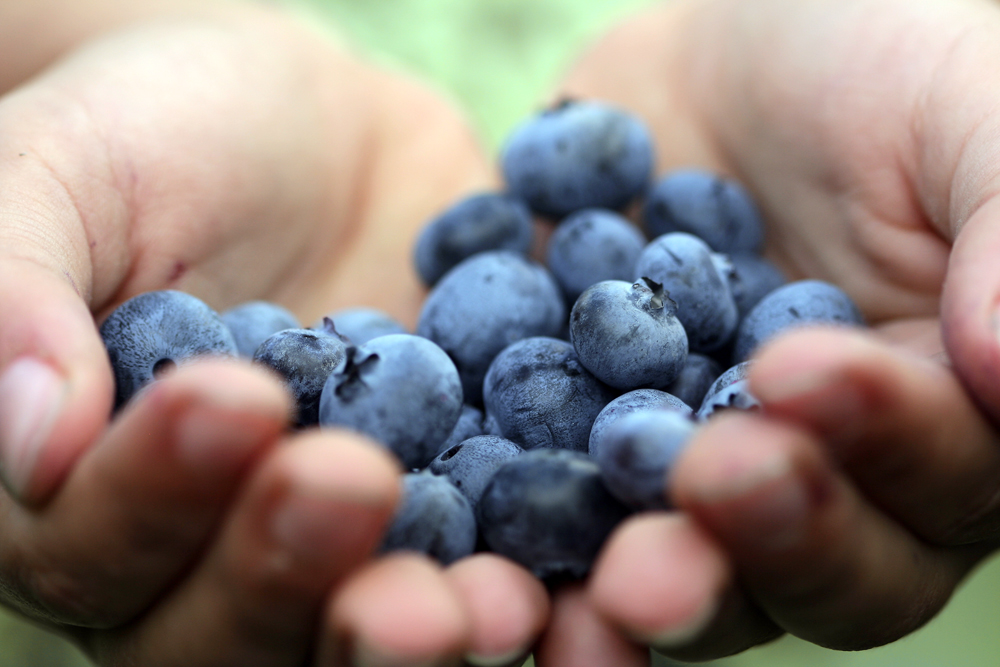 Handful of blueberries, taste of summer, child's offering... I want our boys to remember, and long after we are gone, to come out on some other farms in sunny August and pick their own, with their own kids...